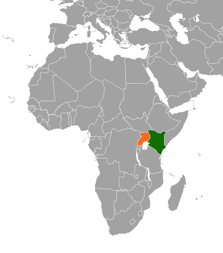 Map showing locations of both Kenya and Uganda